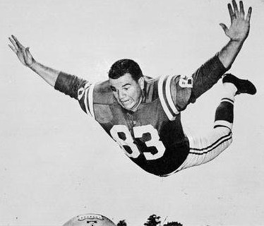 Professional baseball player Don Joyce